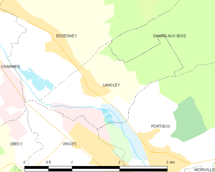 Map of French municipality Langley